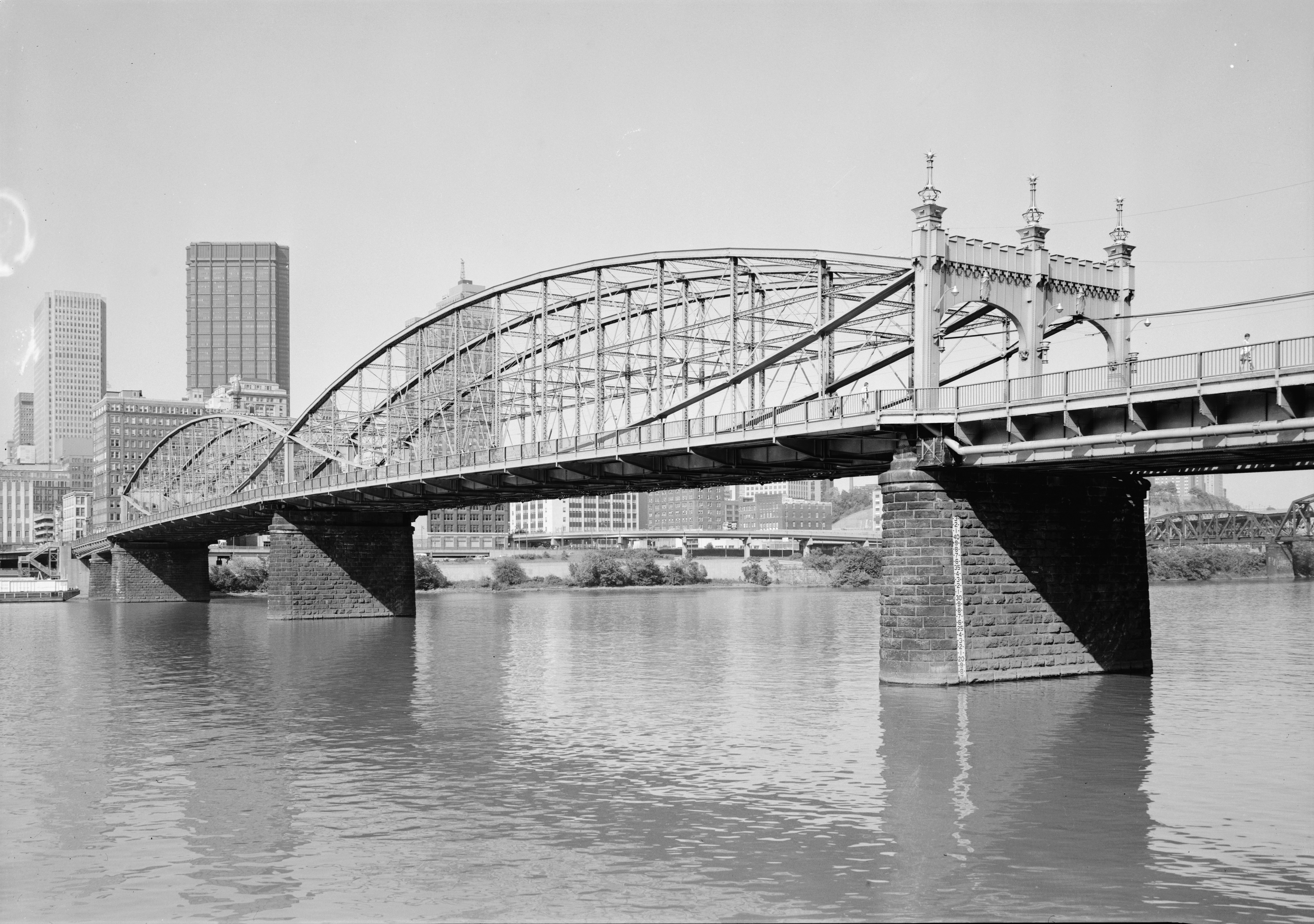 Smithfield Street Bridge, Pittsburgh PA. Photo by Jack E. Boucher, May 1974 for the Library of Congress Historic American Engineering Record.